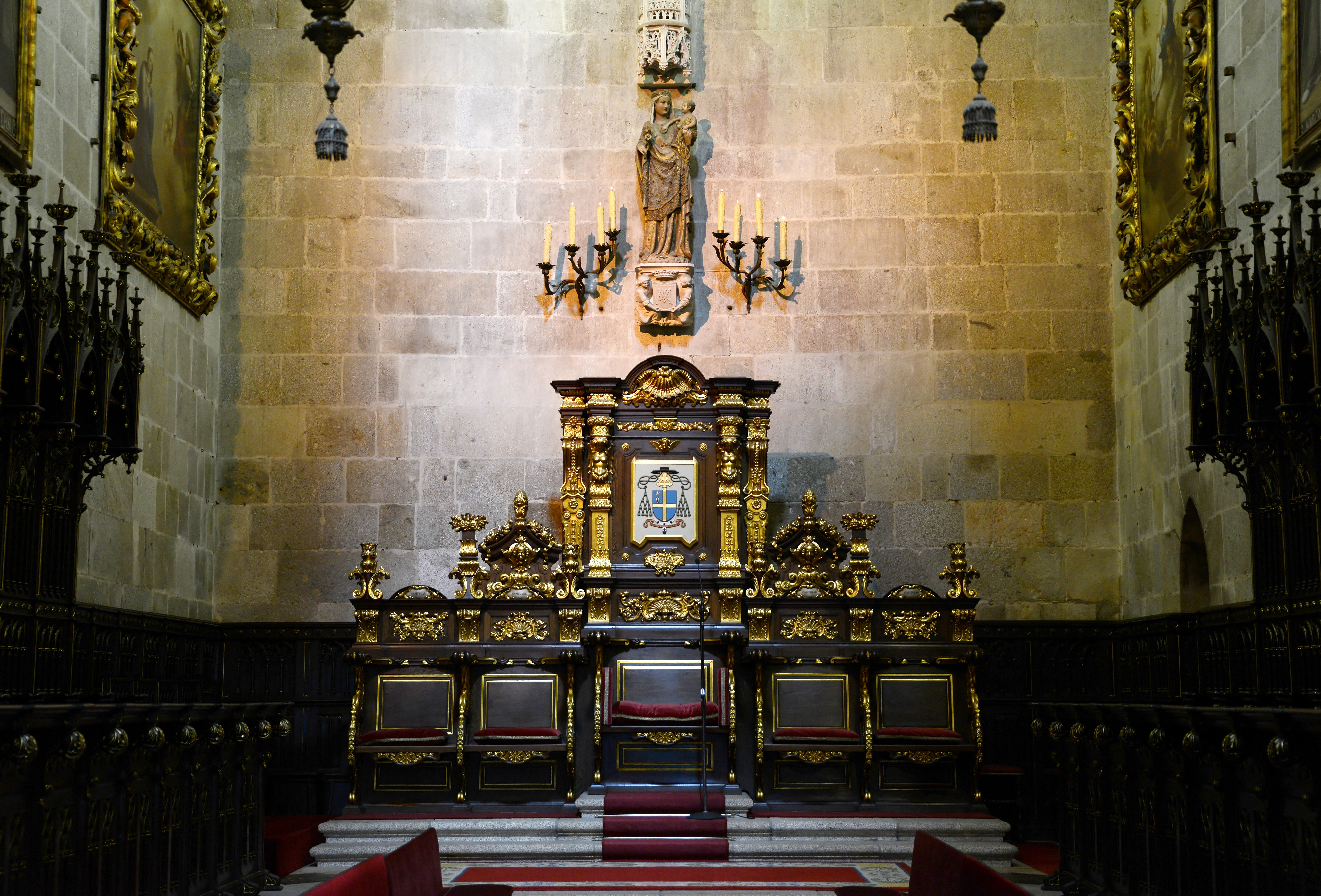 Throne of the Bishop in the Cathedral of Braga, Portugal